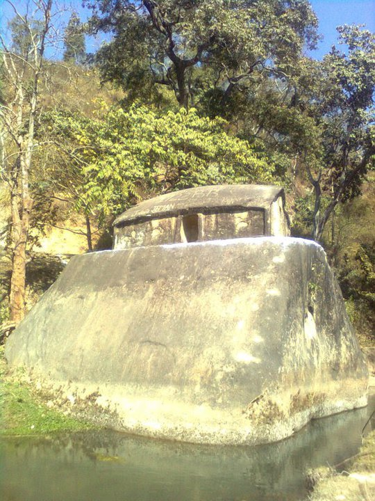 Rock-cut temple also popularly known as "Longthaini Noh" / Stone House is a temple dedicated to Goddess Ranachand, built by Dimasa king Harishchandra Narayan .